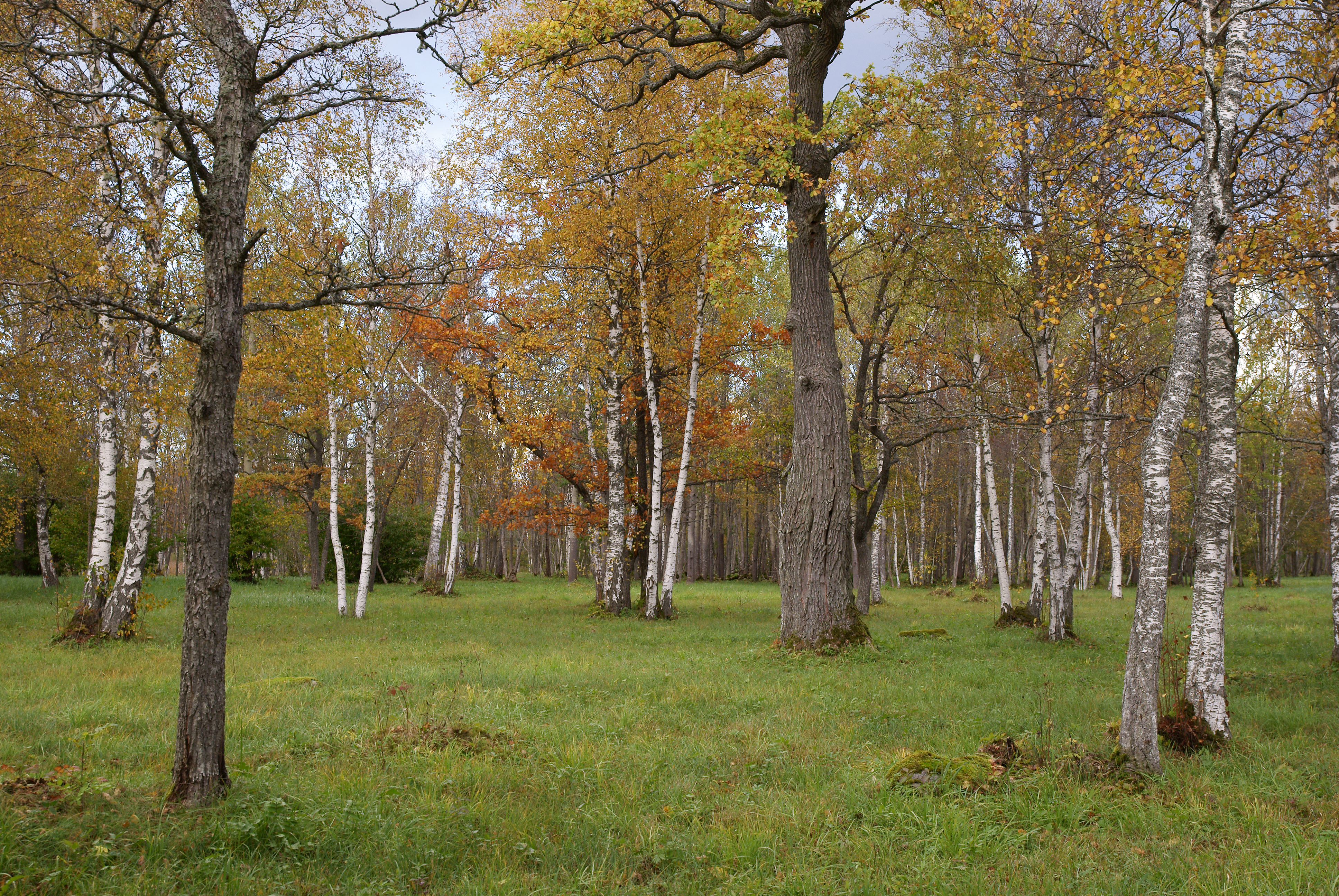 Image was taken in Laelatu wooded meadow in autumn, afternoon, near the former railway dam.